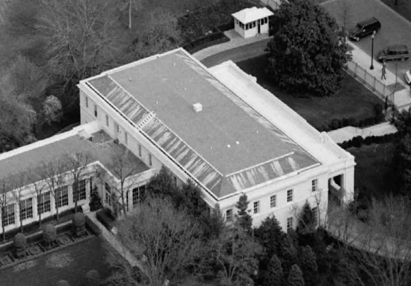 Aerila view of the East Wing from the southeast in 1992.